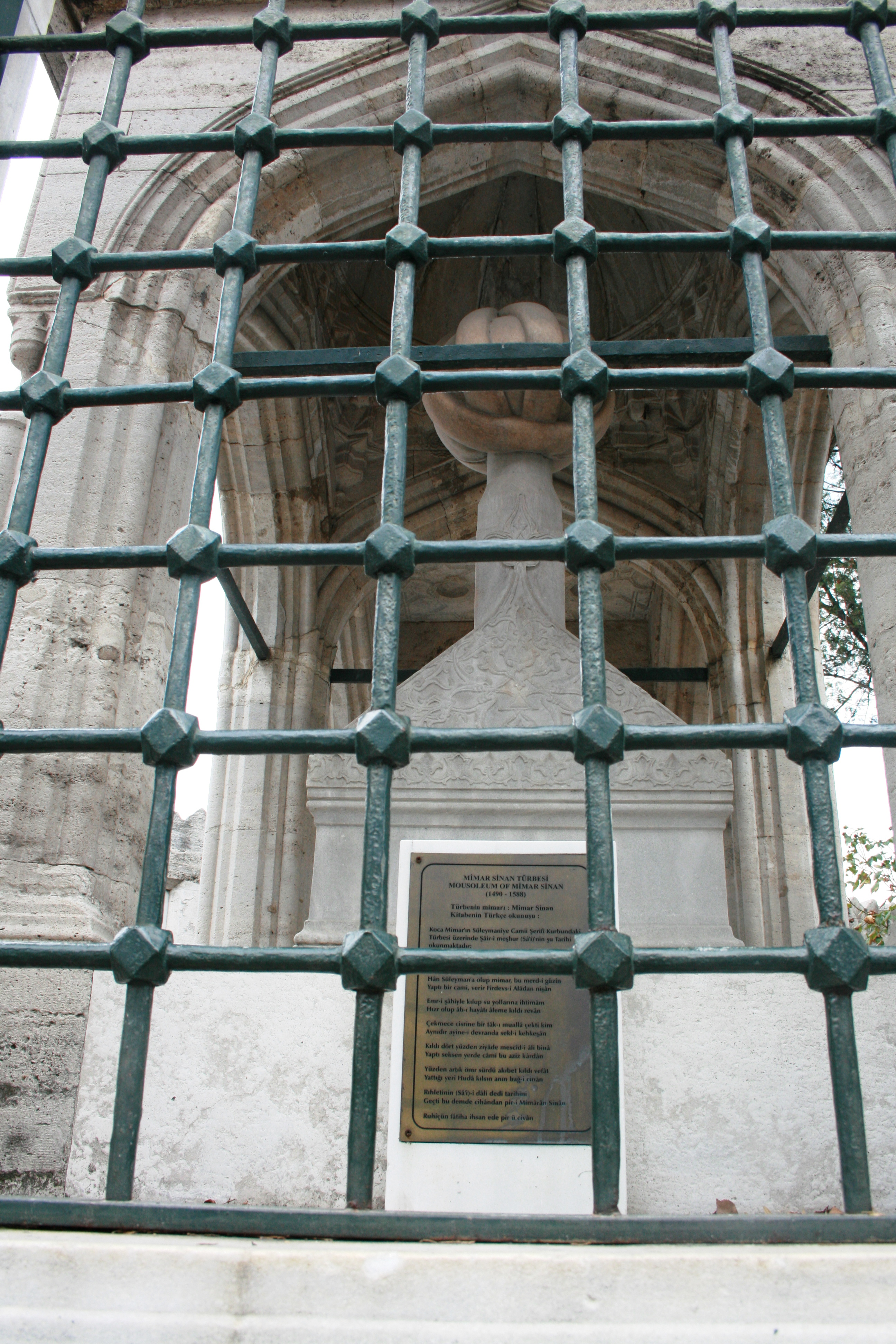 The Tomb of Mimar Sinan